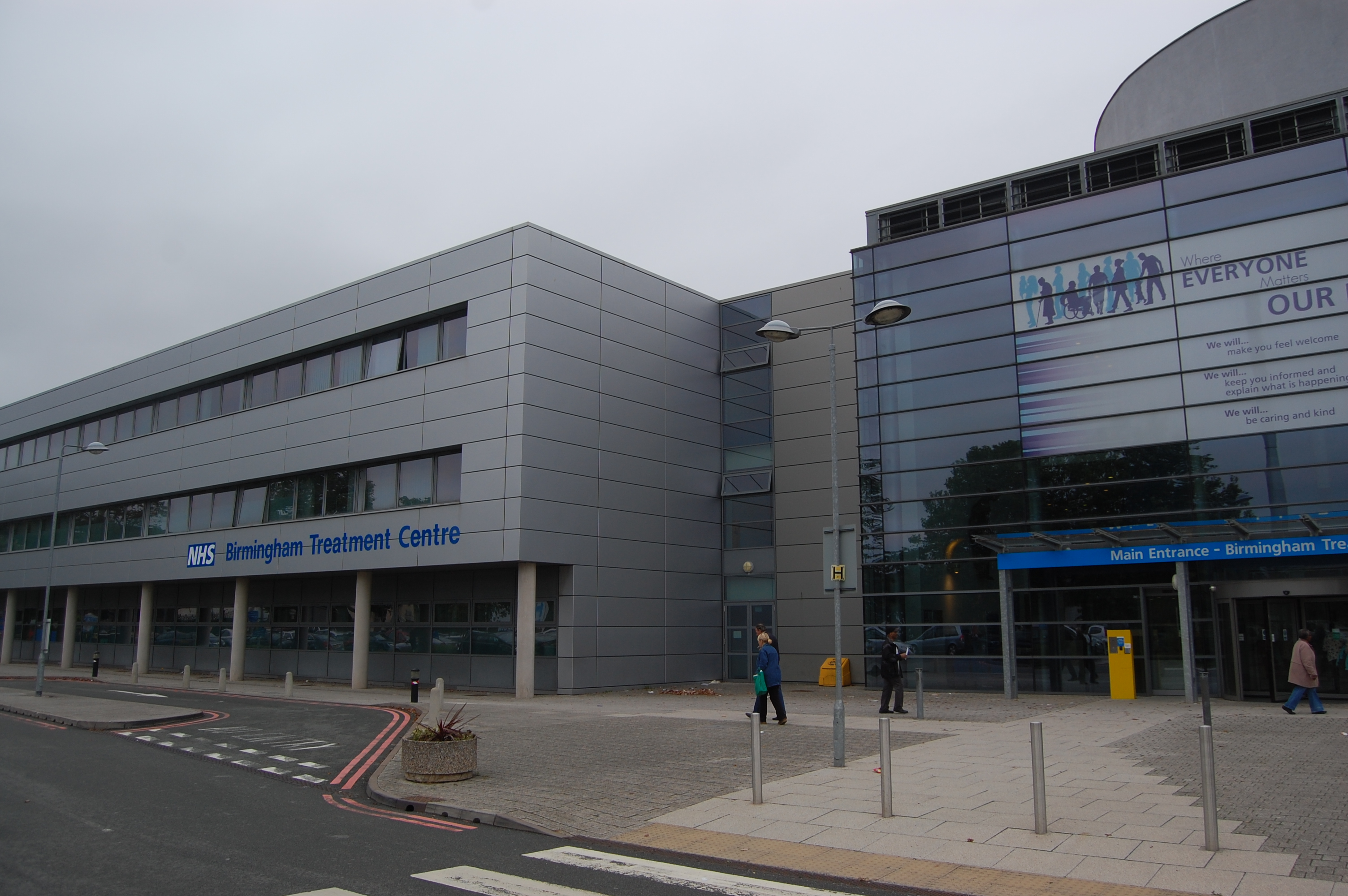 Front of the Birmingham Treatment Centre at City Hospital , Birmingham, England.